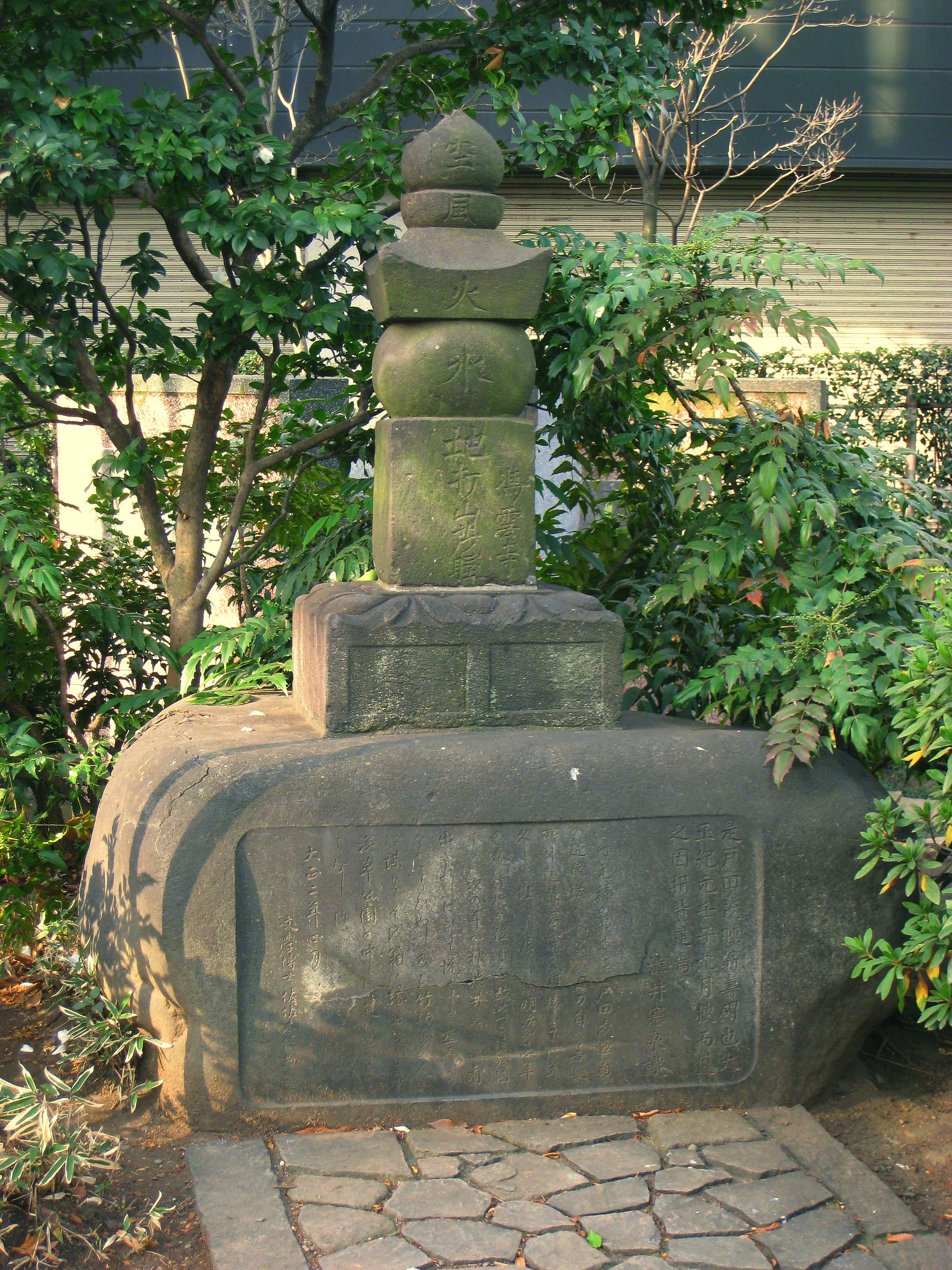 Tomb of Toda Mosui, Sensō-ji temple grounds, Asakusa, Tokyo, Japan.